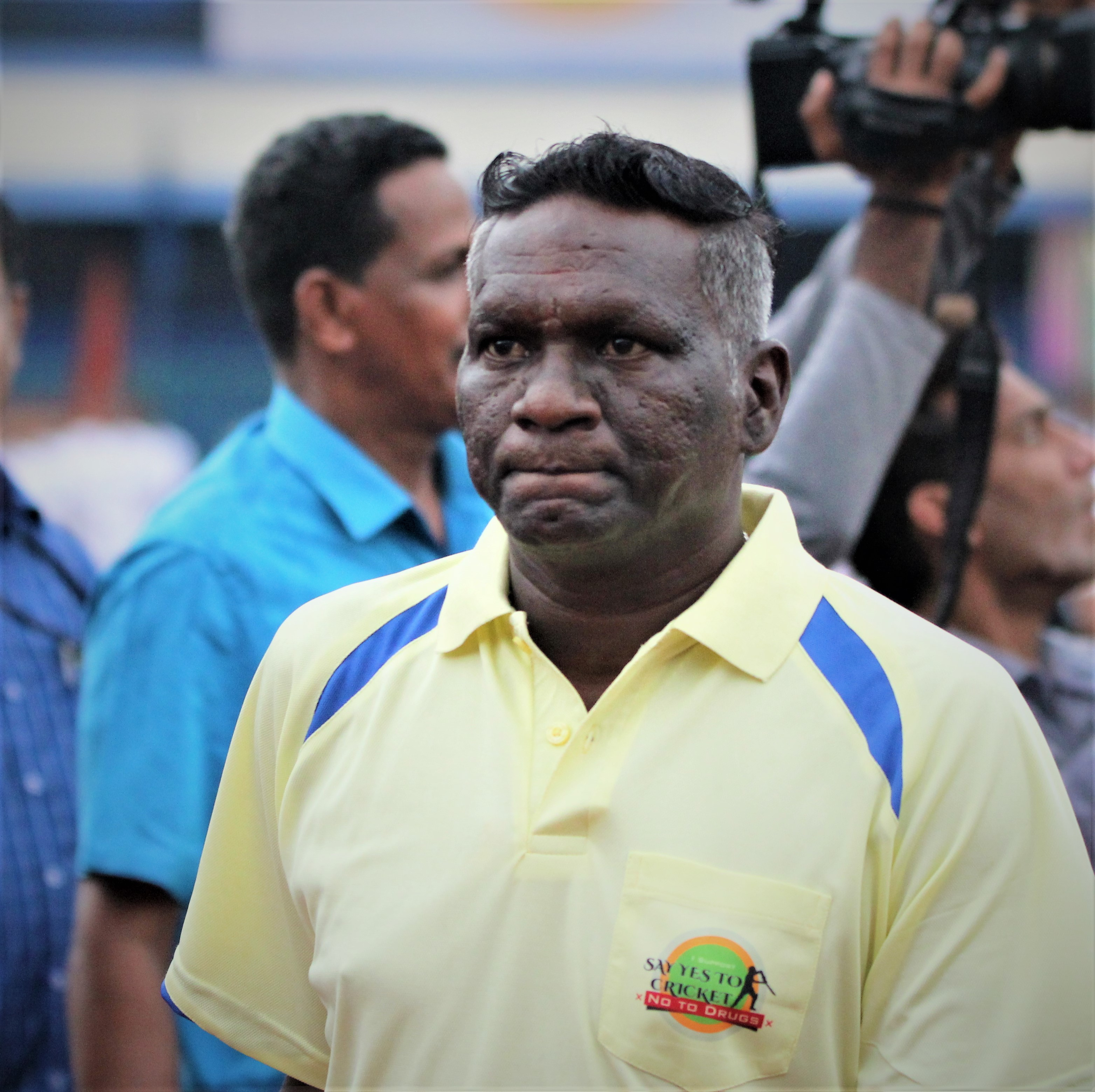 I M Vijayan